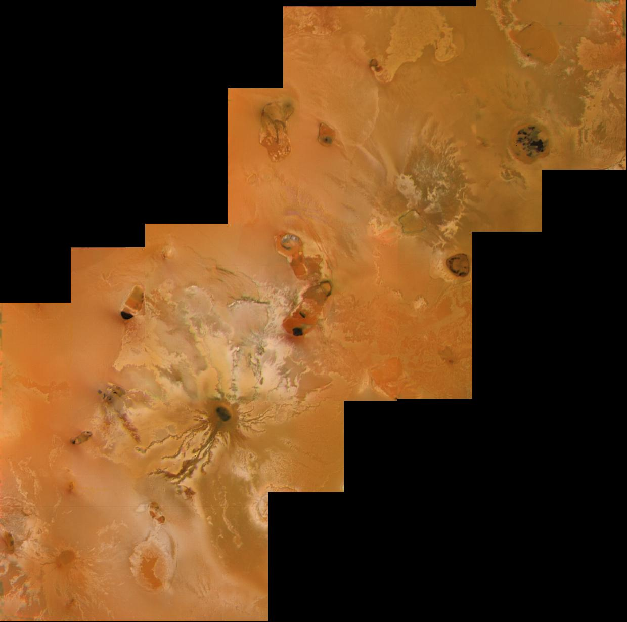 Io's volcanic plains are shown in this Voyager 1 image mosaic. Also visible are numerous volcanic calderas and lava flows. Ra Patera with its multihued lava flows is below and right of the mosaic's center. This scene is about 1300 miles (2100 km) long. The composition of Io's volcanic plains and lava flows has not been determined, but they could consist dominantly of sulfur or of silicates (such as basalt) coated with sulfur condensates. The bright whitish patches probably consist of freshly deposited SO2 frost.